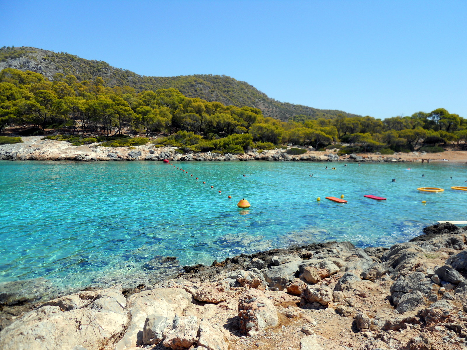 A calm bay at the opposite side of the island with respect to the main village